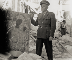 An Officer of the Italian National Fire and rescue Services (Corpo Nazionale dei Vigili del Fuoco) and an icon of St. Mary and Child recovered from a collapsed church in Zante after the 1953 earthquake. The Corpo Nazionale dei Vigili del Fuoco (CNVVF) has been committed since its institution (1939) in Cultural Heritage rescue operations.